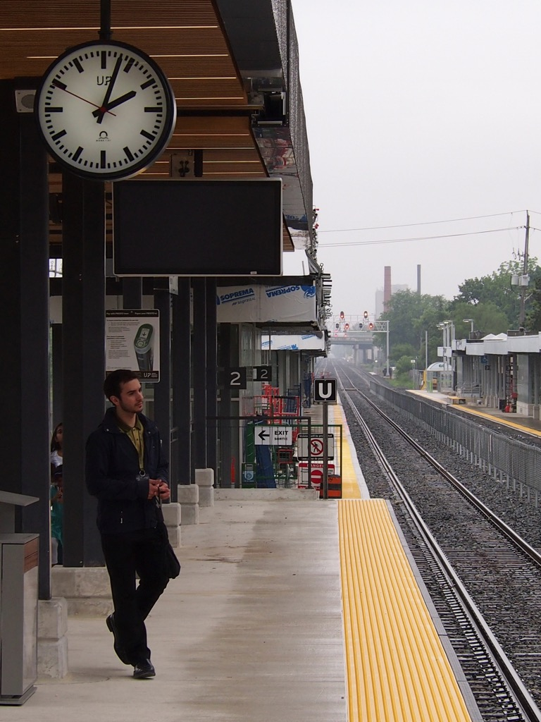 Weston GO Station